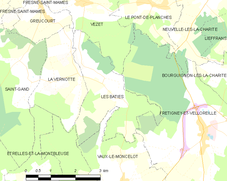 Map of French municipality